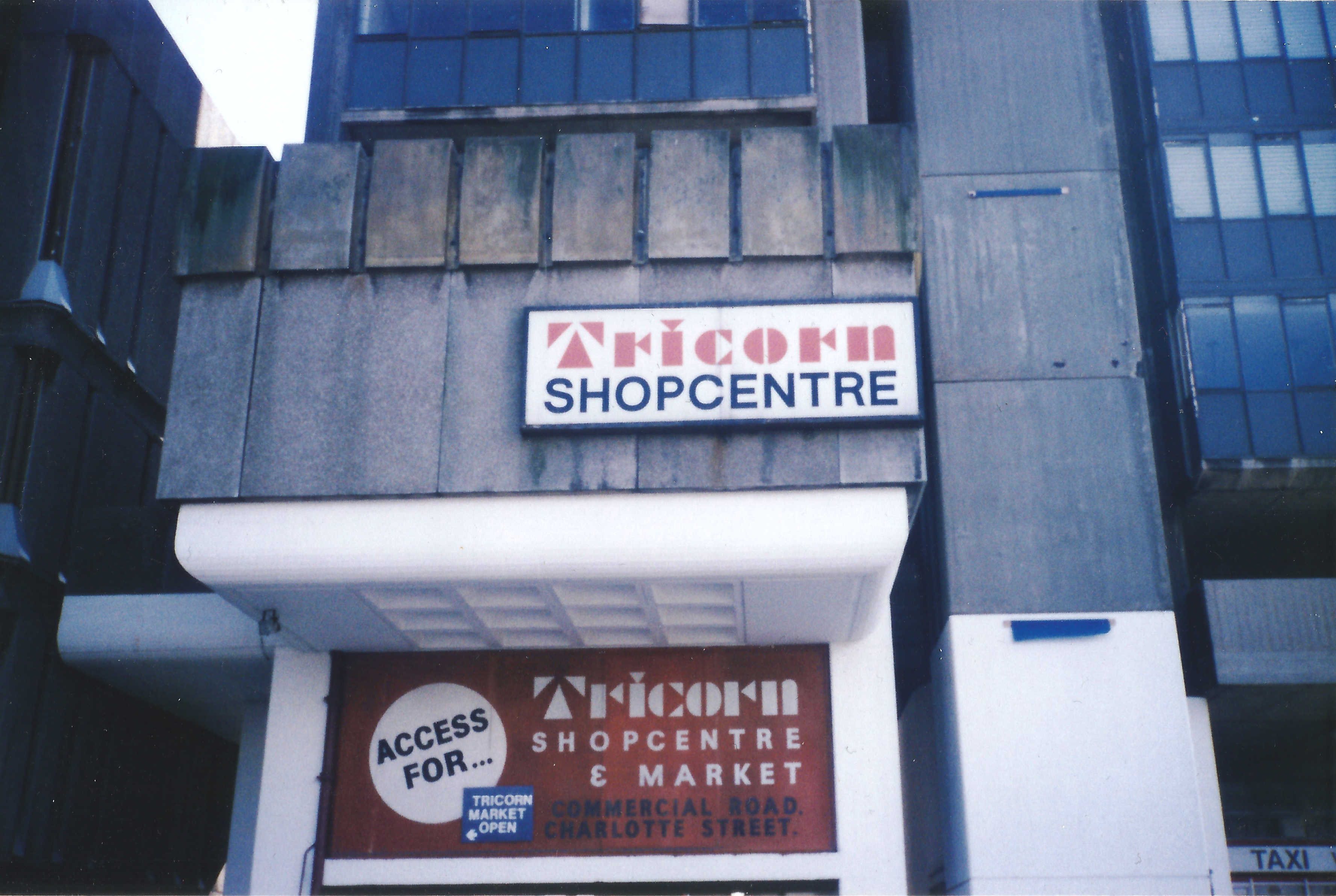 The Tricorn logo sign